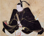 Niwa Nagatsugu, lord of the Nihonmatsu domain.